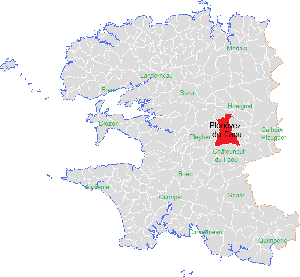 placement Plonévez-du-Faou in departement Finistère